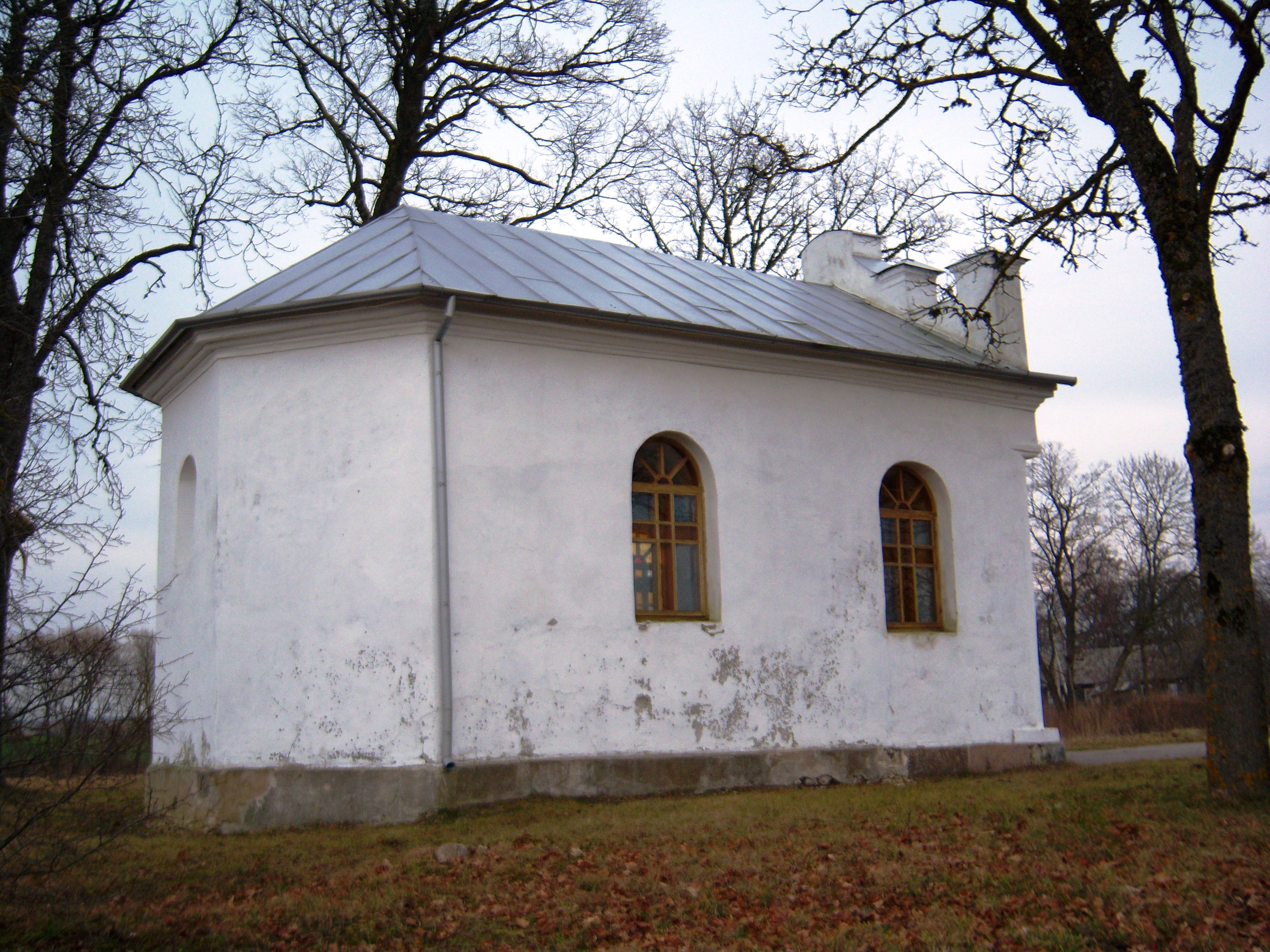 Katauskiai chapel, Raseiniai District, Lithuania